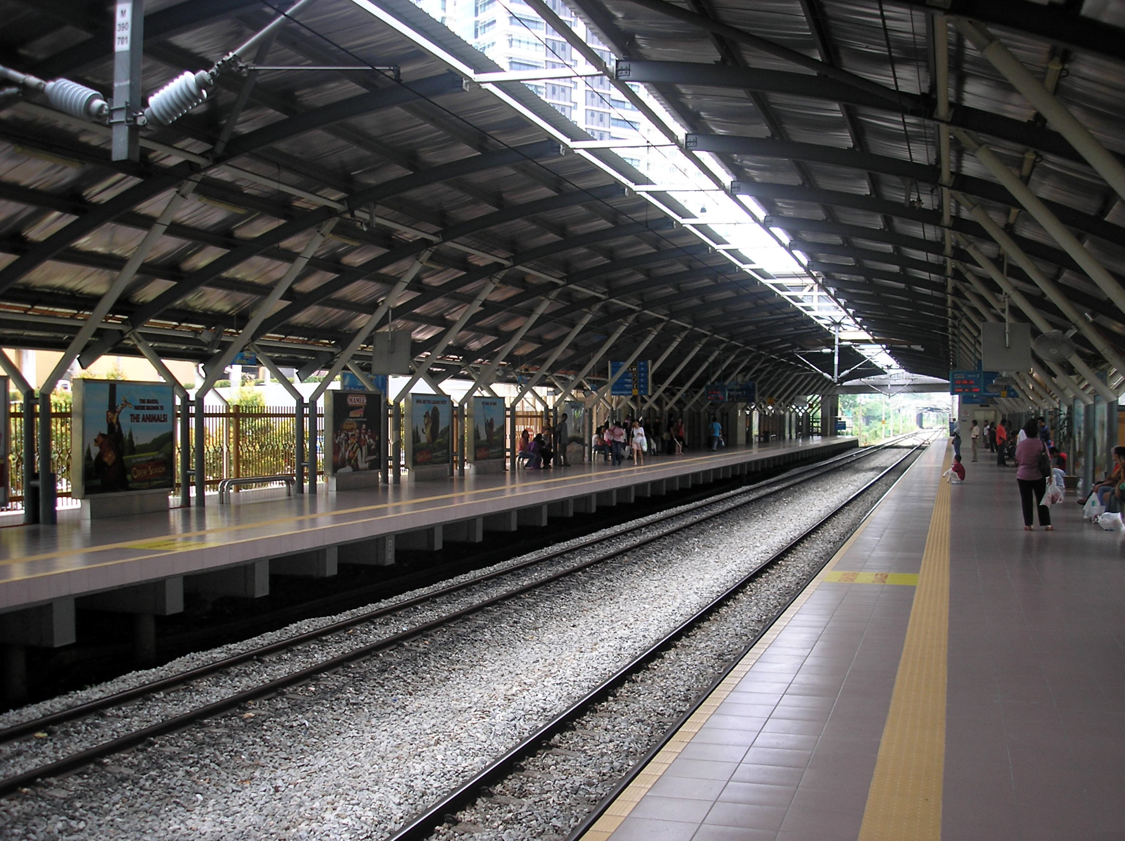 The Mid Valley station (Rawang-Seremban Line), Kuala Lumpur, Malaysia.